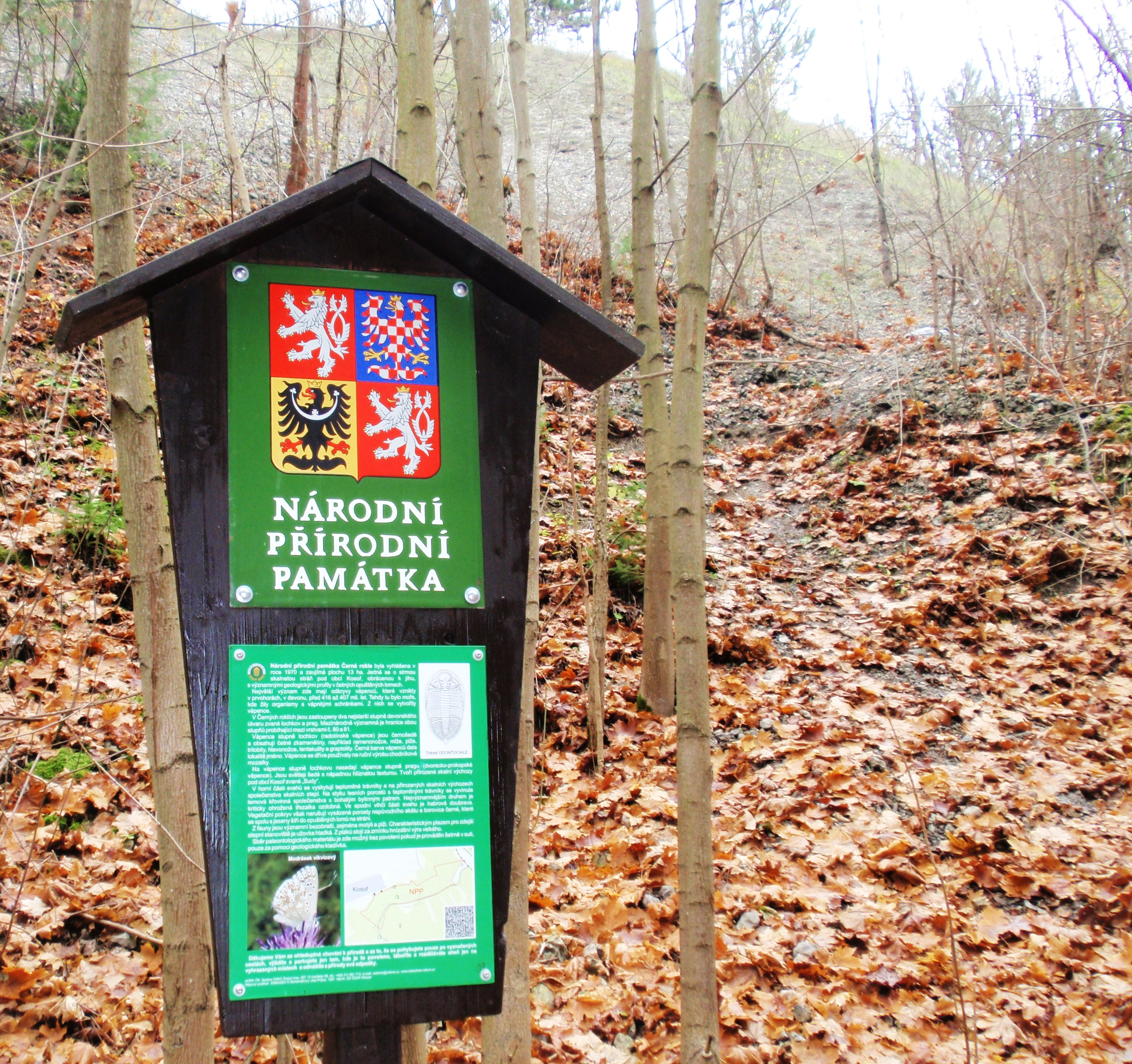 National natural monument Černé rokle in Prague and Prague-West District, Czech Republic